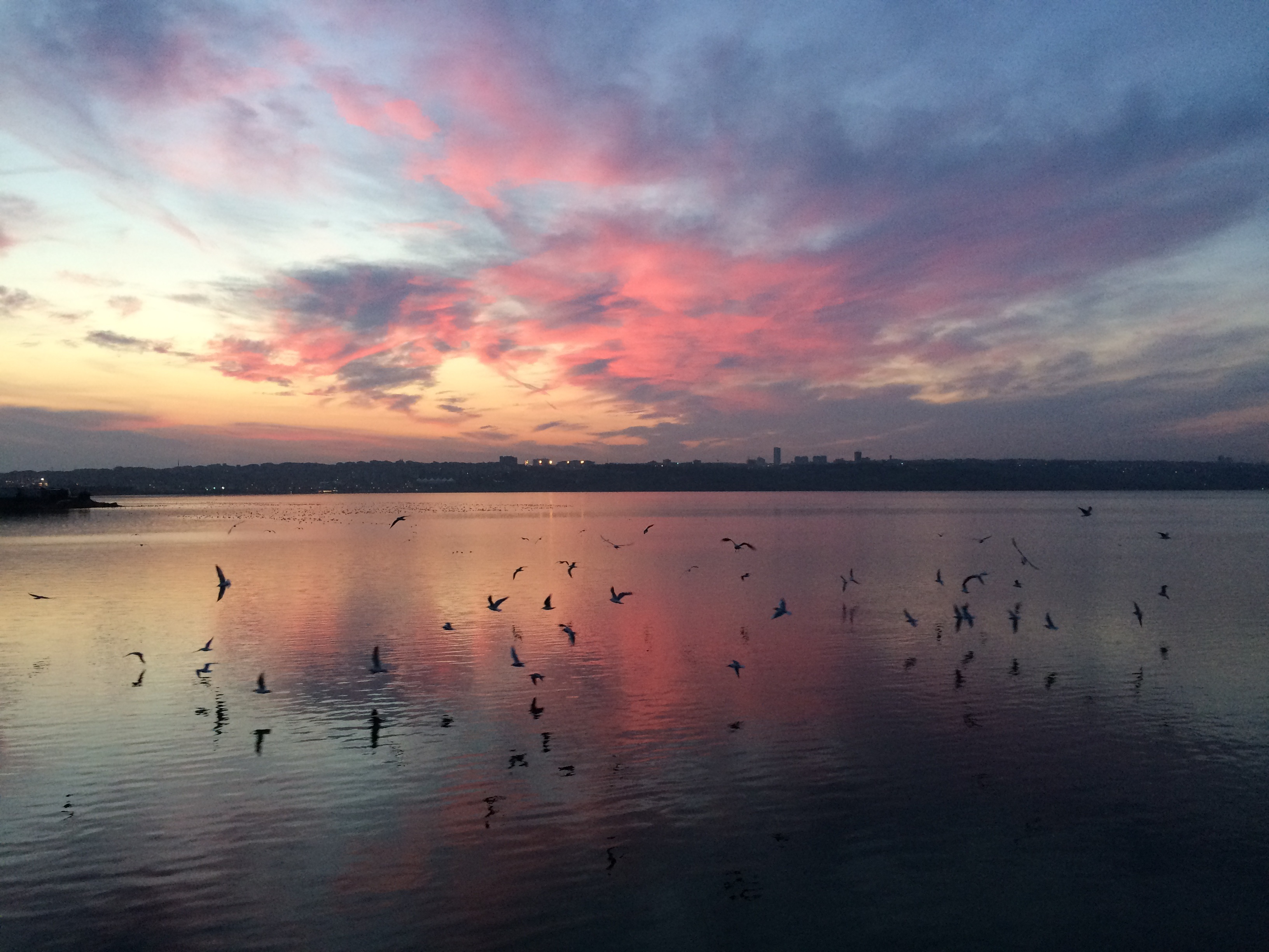 Lake Küçükçekmece with sun low.